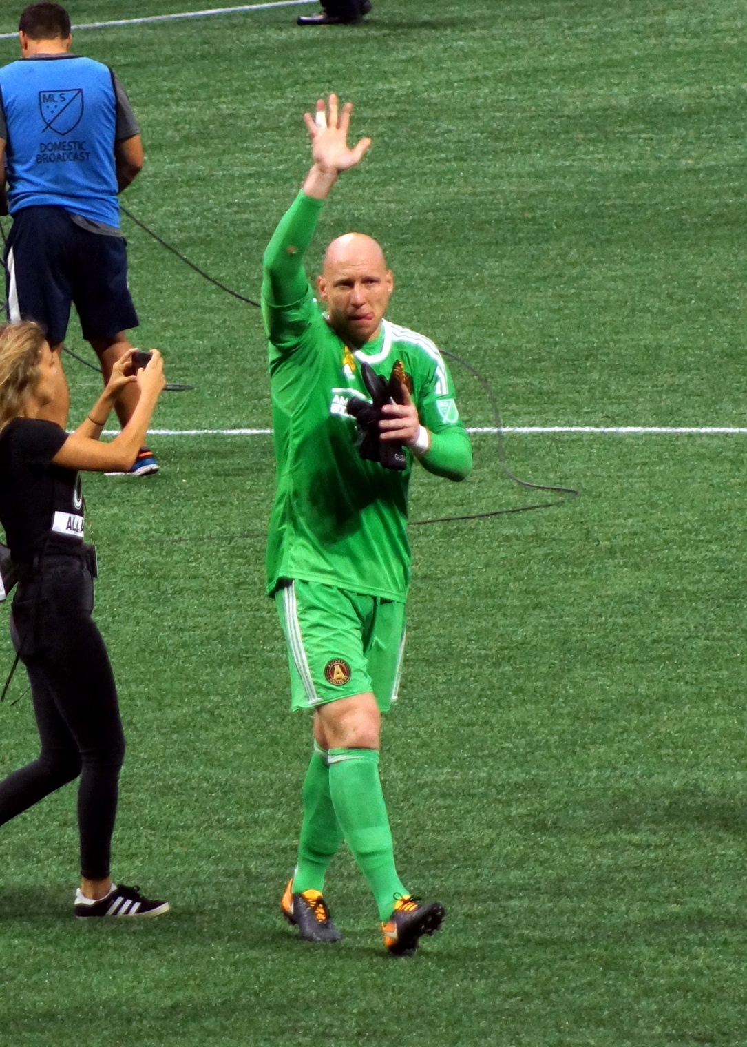 Brad Guzan after the Atlanta United game on September 24, 2017